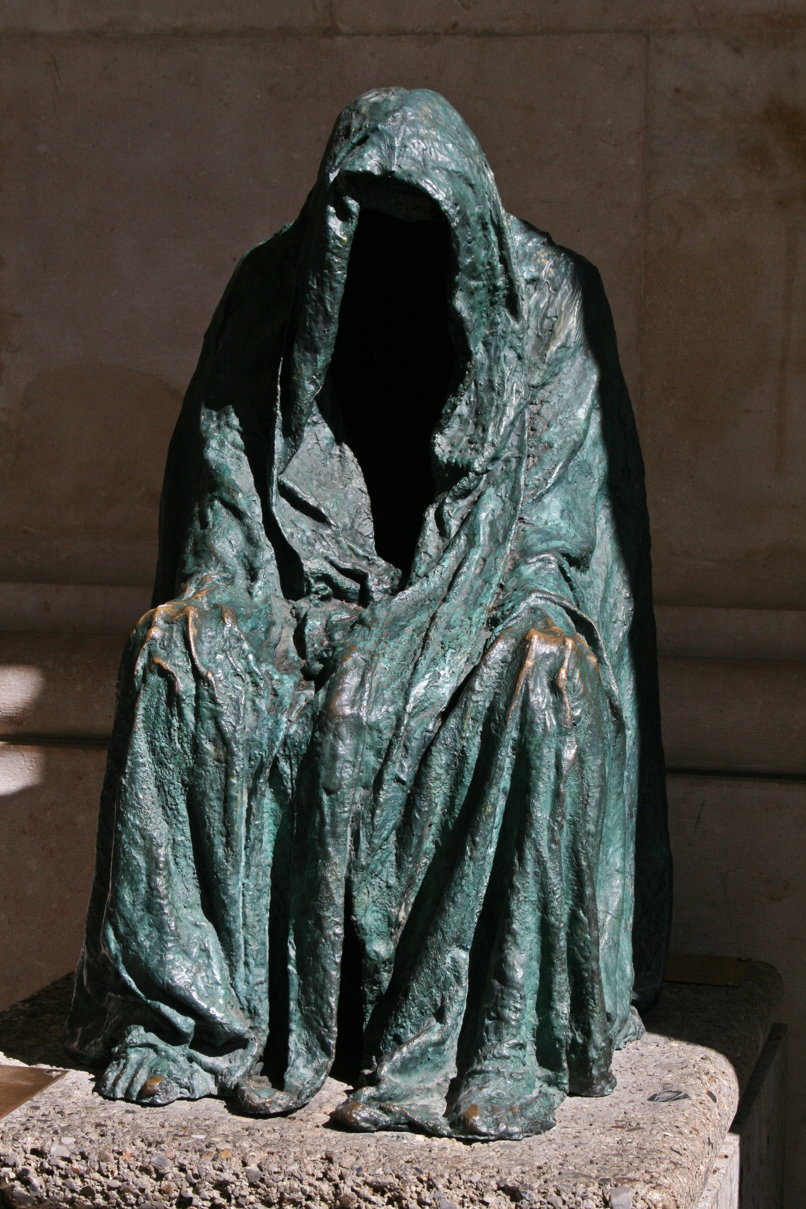 Anna Chromy: Pieta outside of Salzburg Cathedral, created 1999, inspired by Mozart's Don Giovanni and Hofmannsthal's Jedermann